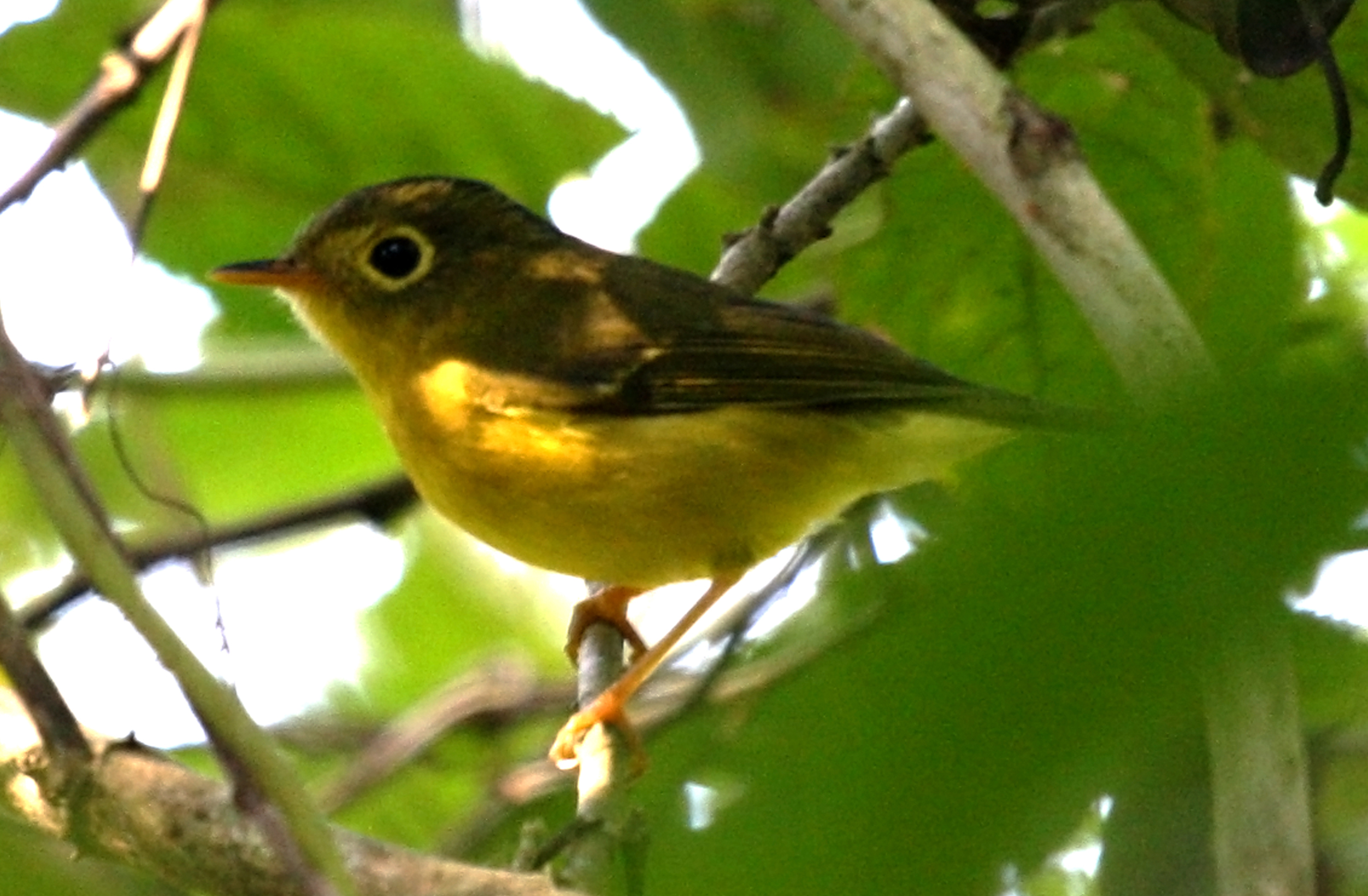 Photo taken by Dr. Raju Kasambe in Kaziranga National Park, Assam, India. Whistler's Warbler Seicercus whistleri